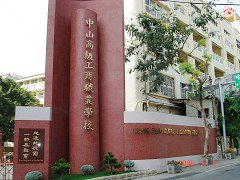 Chung-Shan Industrial & Commercial School, Kaohsiung, Taiwan